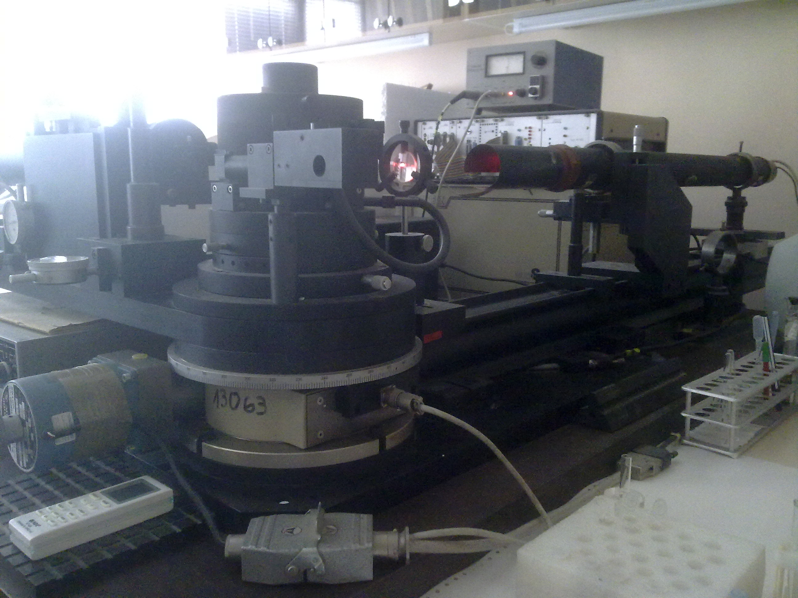 Laser correlation spectrometer ZetaSizer-3 (Malvern Instrument, UK), equipped with He-Ne laser LGN-111 (P=25 mW, wavelength=633 nm). Device measuring range is from 1 nm to 20 microns. The work of this spectrometer is based on the analysis of correlation characteristics of intensity fluctuations of dynamically scattered light when passing a laser beam through the medium.